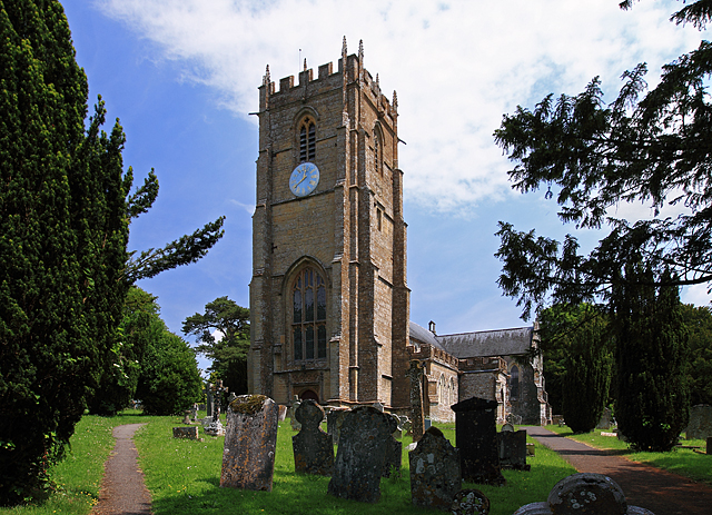 Whitchurch Canonicorum: Parish Church of St Candida and Holy Cross Dating from the C12, it incorporates much from later periods, principally the C13, C14 and C15. Its glory is the C15 west tower of four stages.